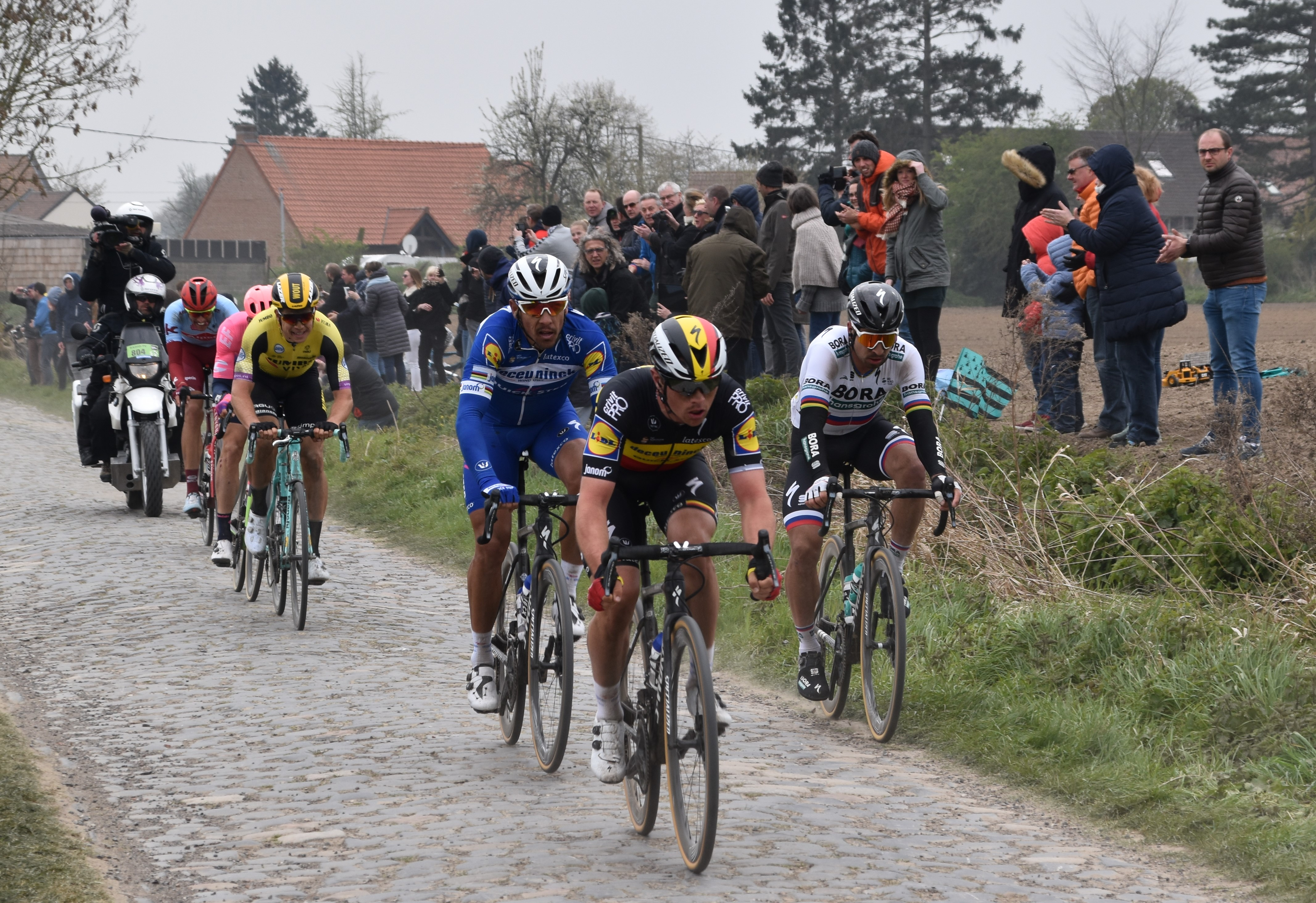 Paris-Roubaix 2019 (f.r.t.l.: Peter Sagan, Yves Lampaert, Philippe Gilbert, Wout van Aert, Sep Vanmarcke, Nils Politt